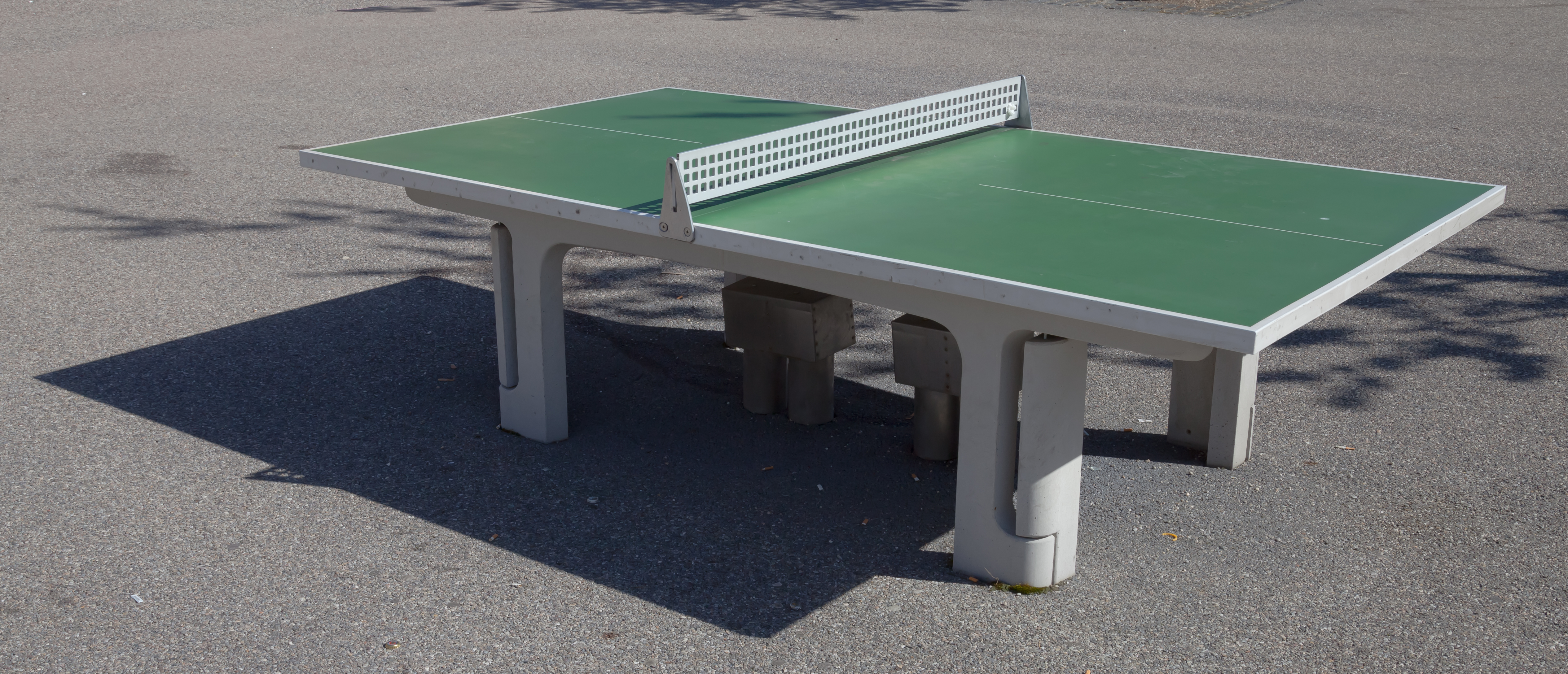 Ping pong table, Riesstr., Munich, Germany